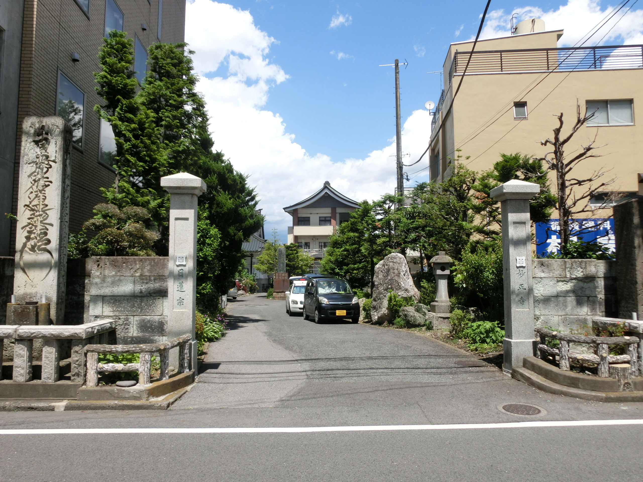 Myosho-ji (Utsunomiya)